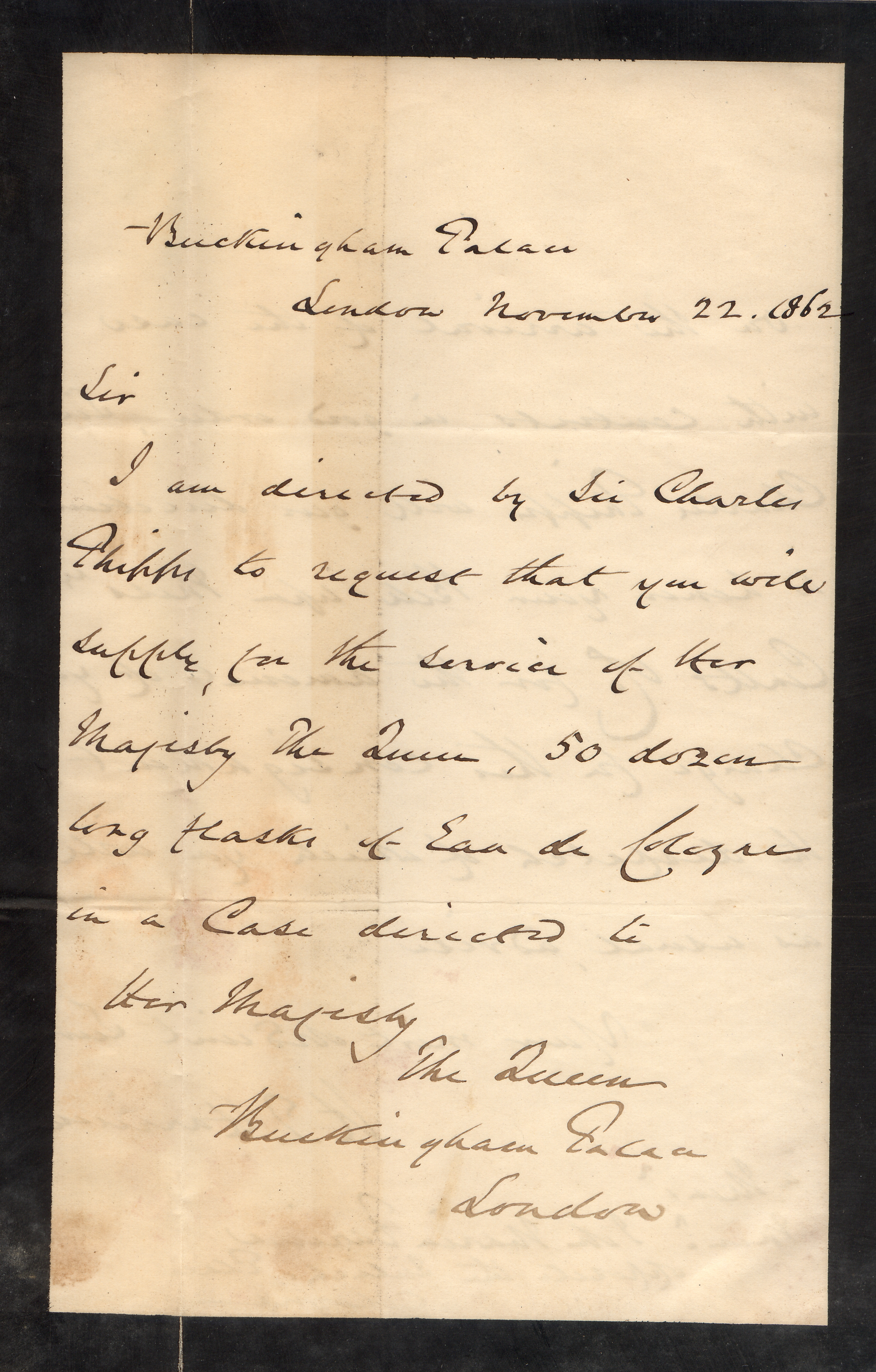 Order Queen Victoria Farina Eau de Cologne